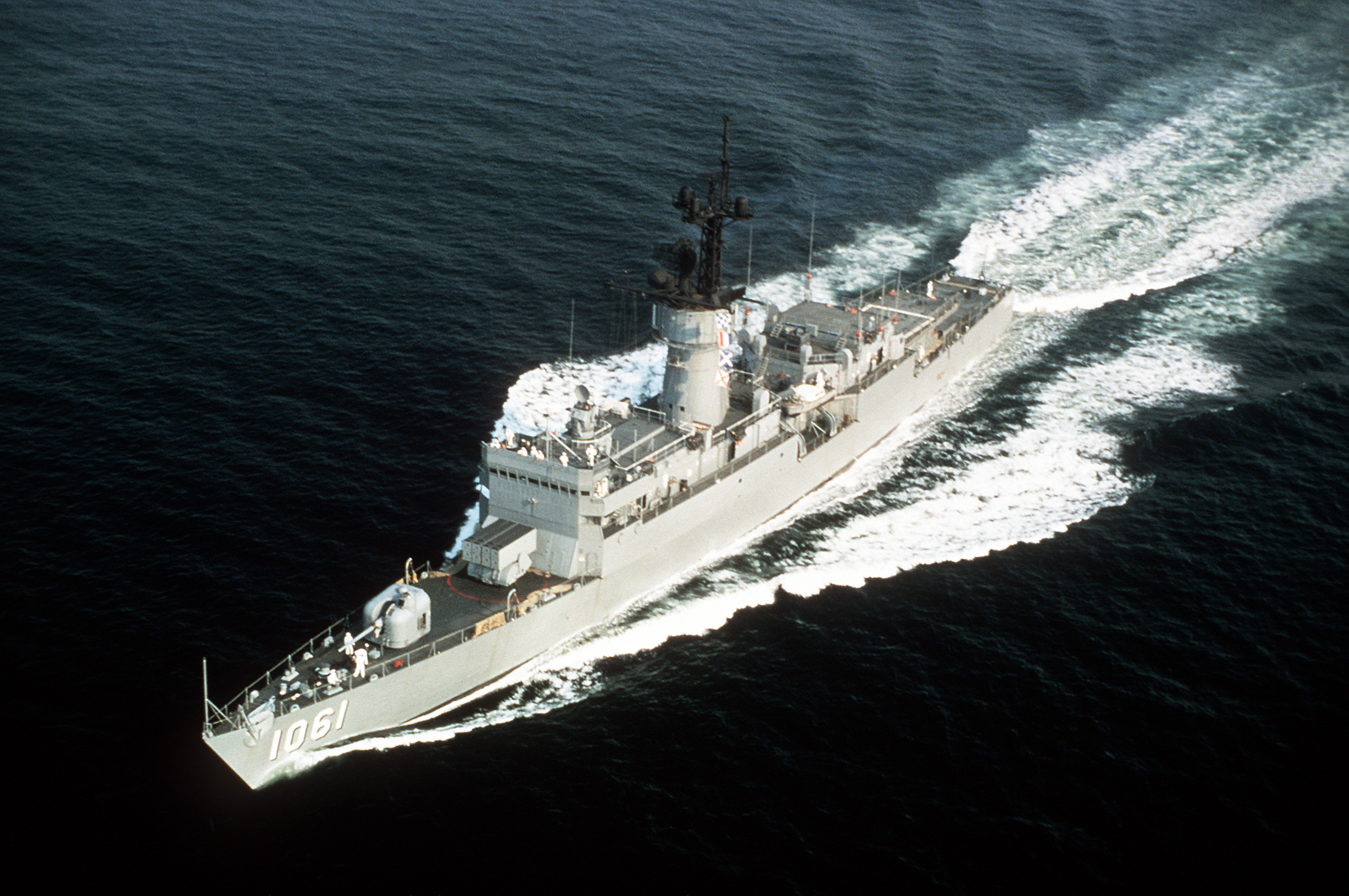 The U.S. Navy ocean escort USS Patterson (DE-1061) underway in Narragansett Bay, Rhode Island (USA), 27 August 1970.